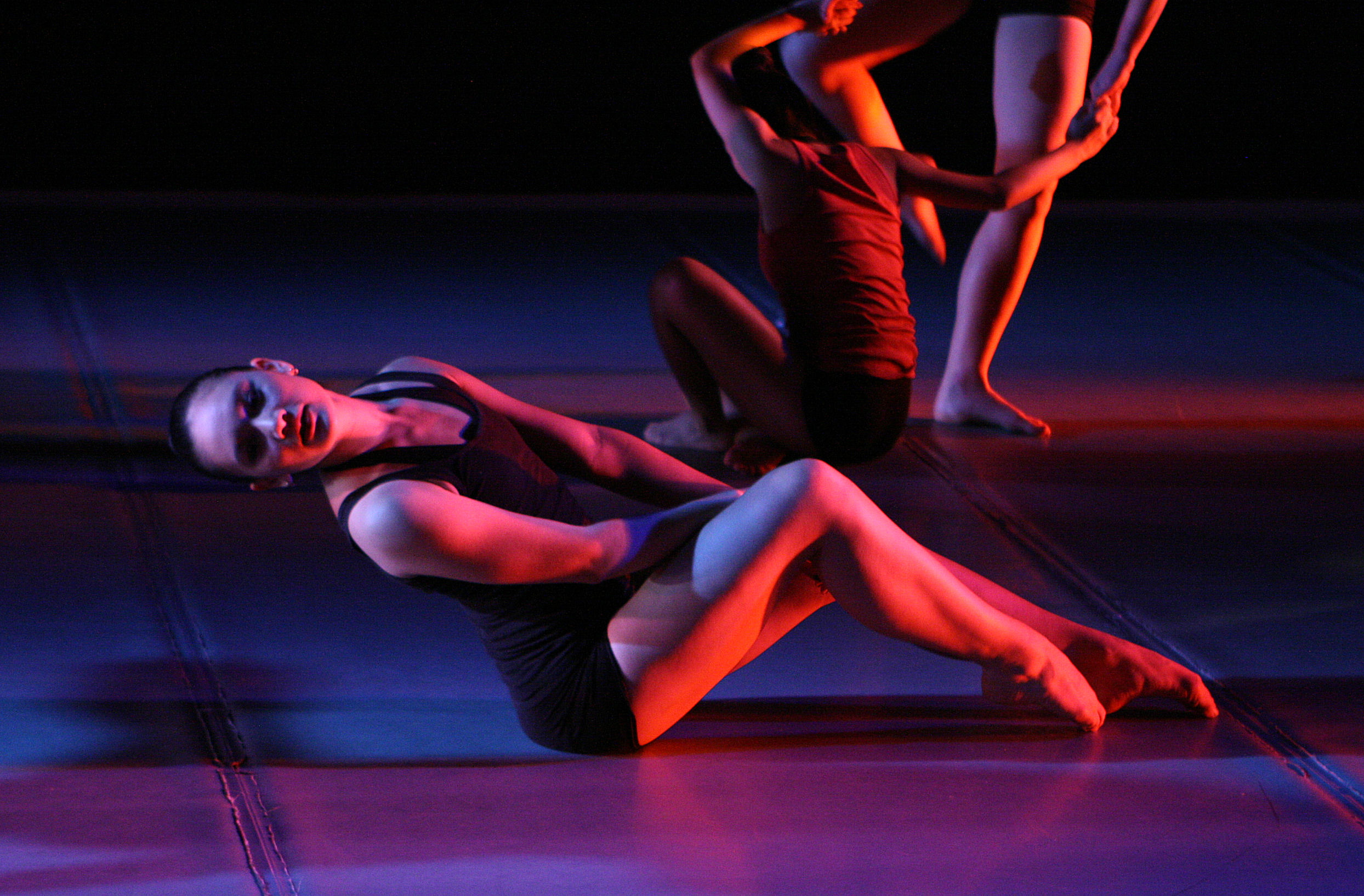 A modern dance piece performed during a NW Fusion Dance Company concert. This image is a close-up of Daria L, expressing through body form her interpretation of an emotional passage of the accompanying music